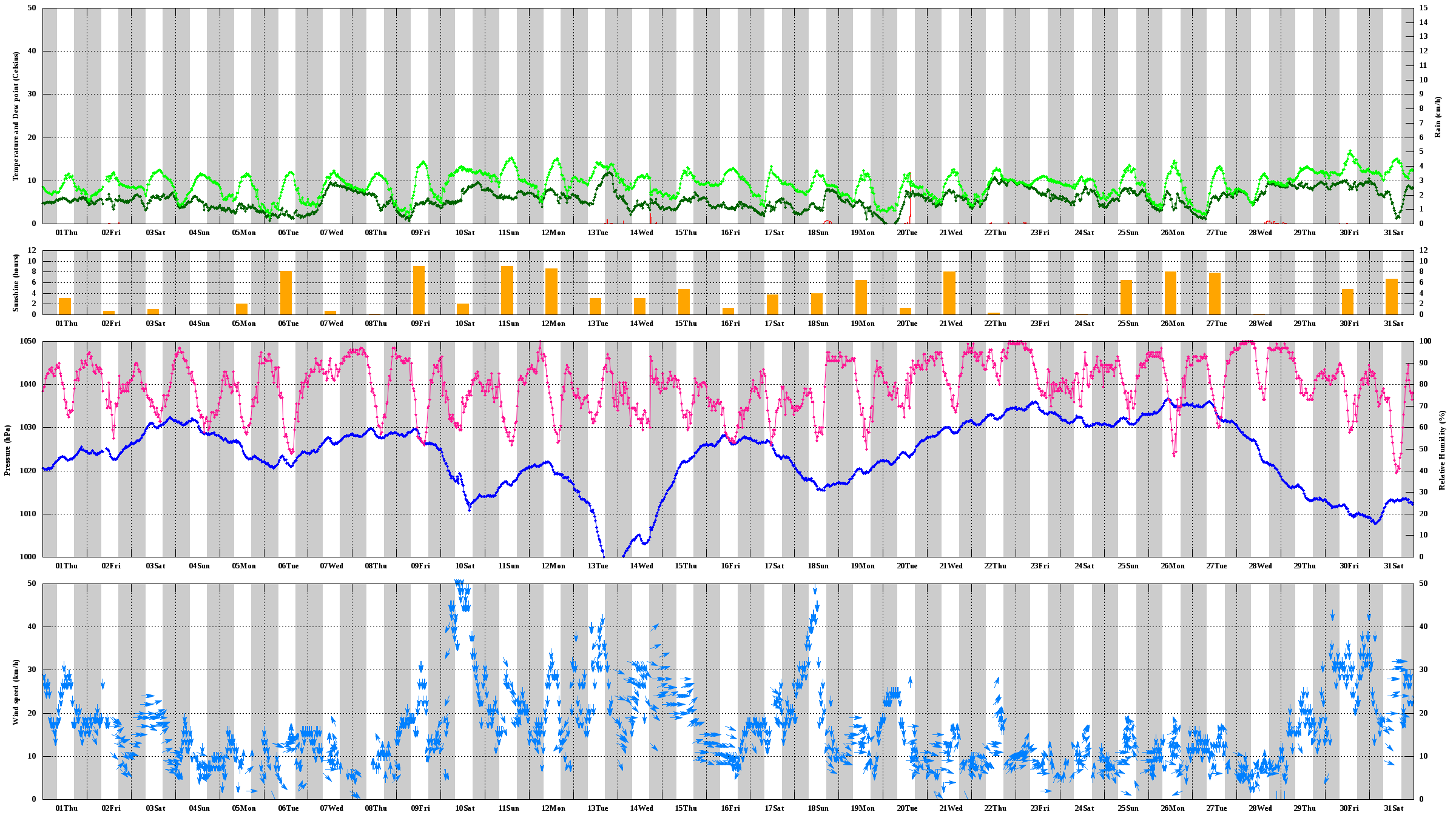 The weather at Melbourne Airport in July 2010 (data from